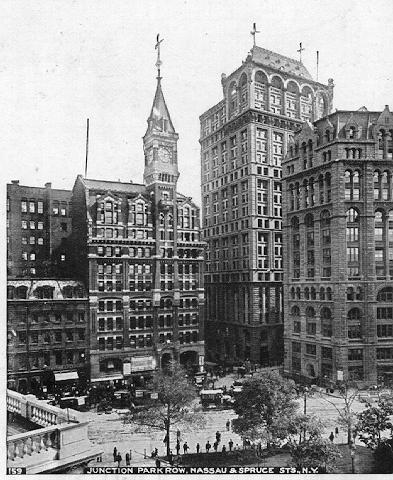 New York Tribune Building